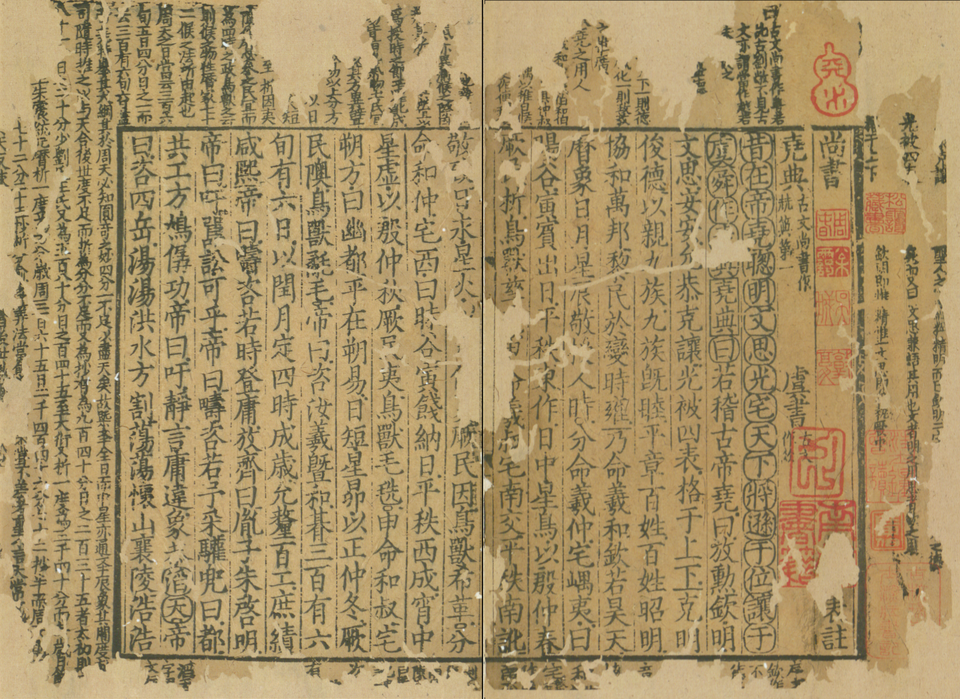 First pages of Shangshu biaozhu 尚書表注, by Jin Lüxiang 金履祥, an edition of the Book of Documents (Shangshu or Shijing) with commentaries, printed 1279 in Fujian Province, China. Held in National Central Library, Taiwan. The pages contain the beginning of the "Canon of Yao" (堯典) chapter.